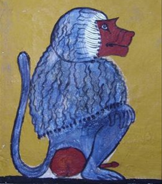 Babi (Egyptian god) which sit on the scales in the Hall of Judgment of Osiris in the underworld